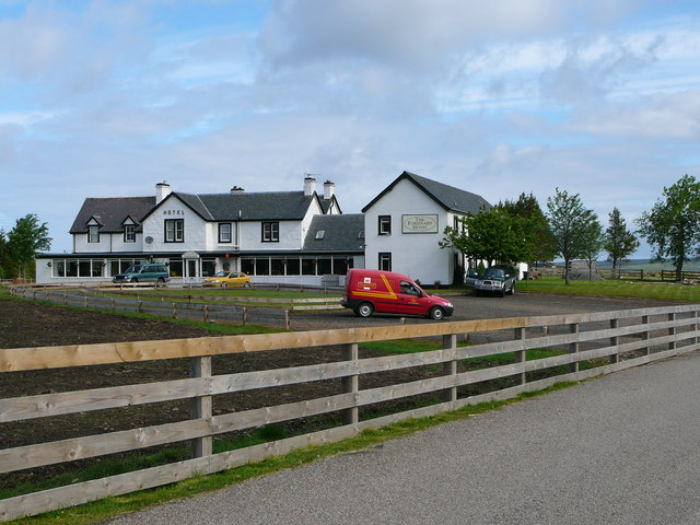 The Forsinard Hotel, Forsinard, Sutherland